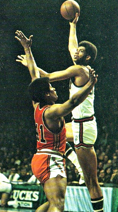 Professional basketball players Wes Unseld (left) and Kareem Abdul Jabbar (right)